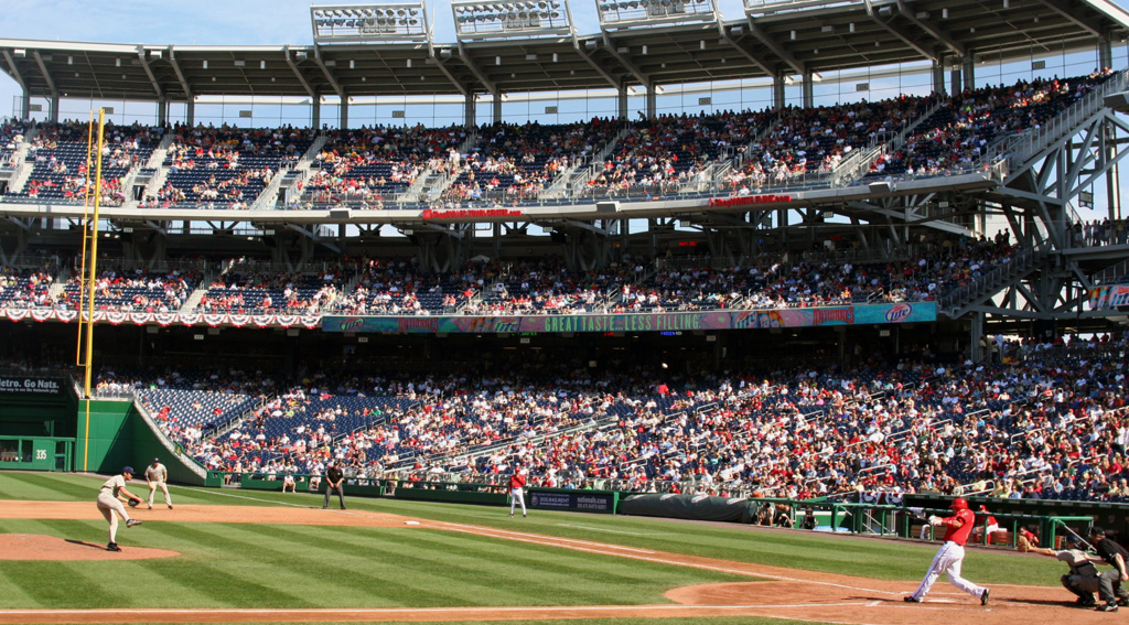 Ryan Zimmerman homers against San Diego, September 21, 2008.